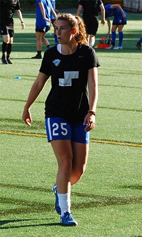 Morgan Andrews warms up before a match against the Seattle Reign, July 15, 2017